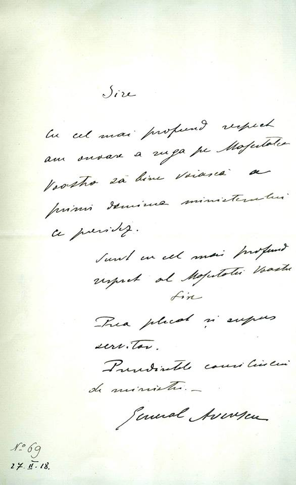 The resignation of the Romanian Prime Minister Alexandru Averescu, 1918